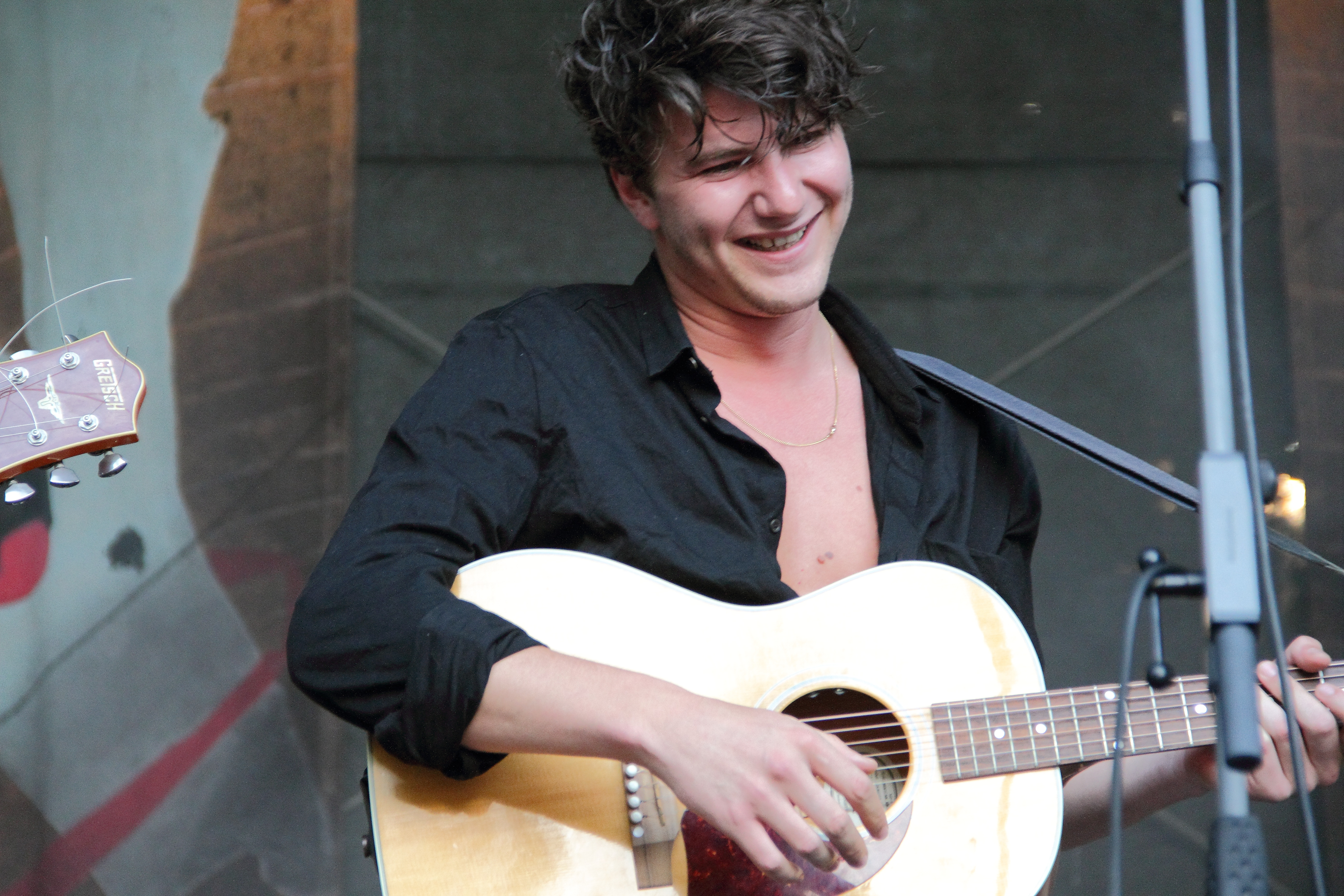 Faber at Rudolstadt-Festival 2018.